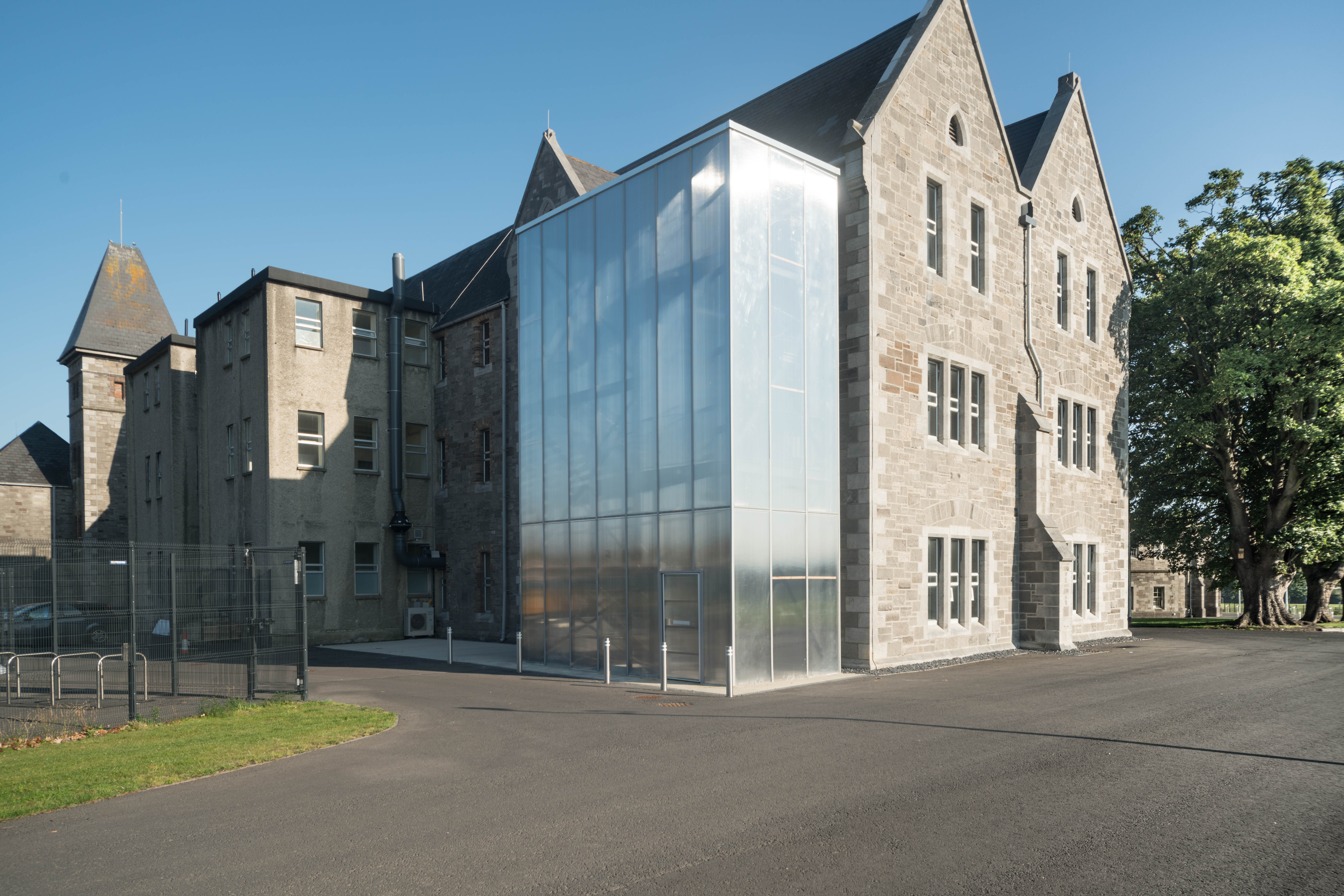 Dublin Institute of Technology, Grangegorman Campus